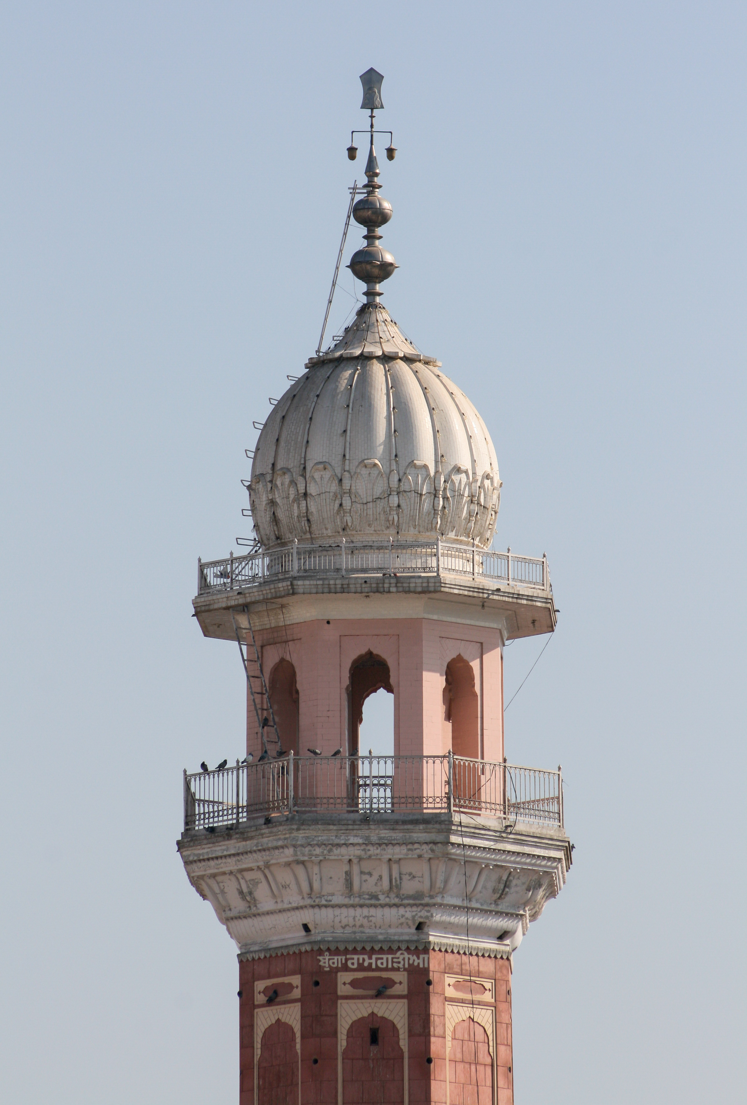 Harmandir Sahib or the Golden Temple, Amritsar, India